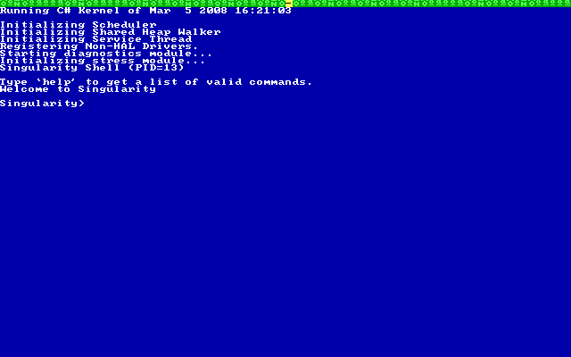 Screenshot of Singularity, a Microsoft Research operating system running in Virtual PC.